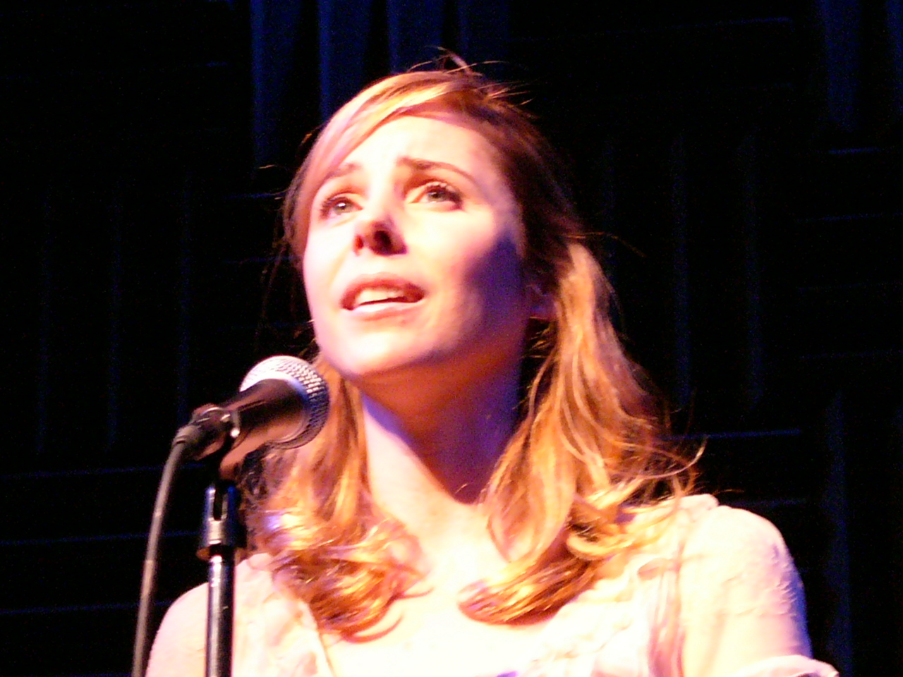 Kerry Butler performing the song "Disneyland" at a benefit concert for Hurricane Katrina in New York, 10/23/05